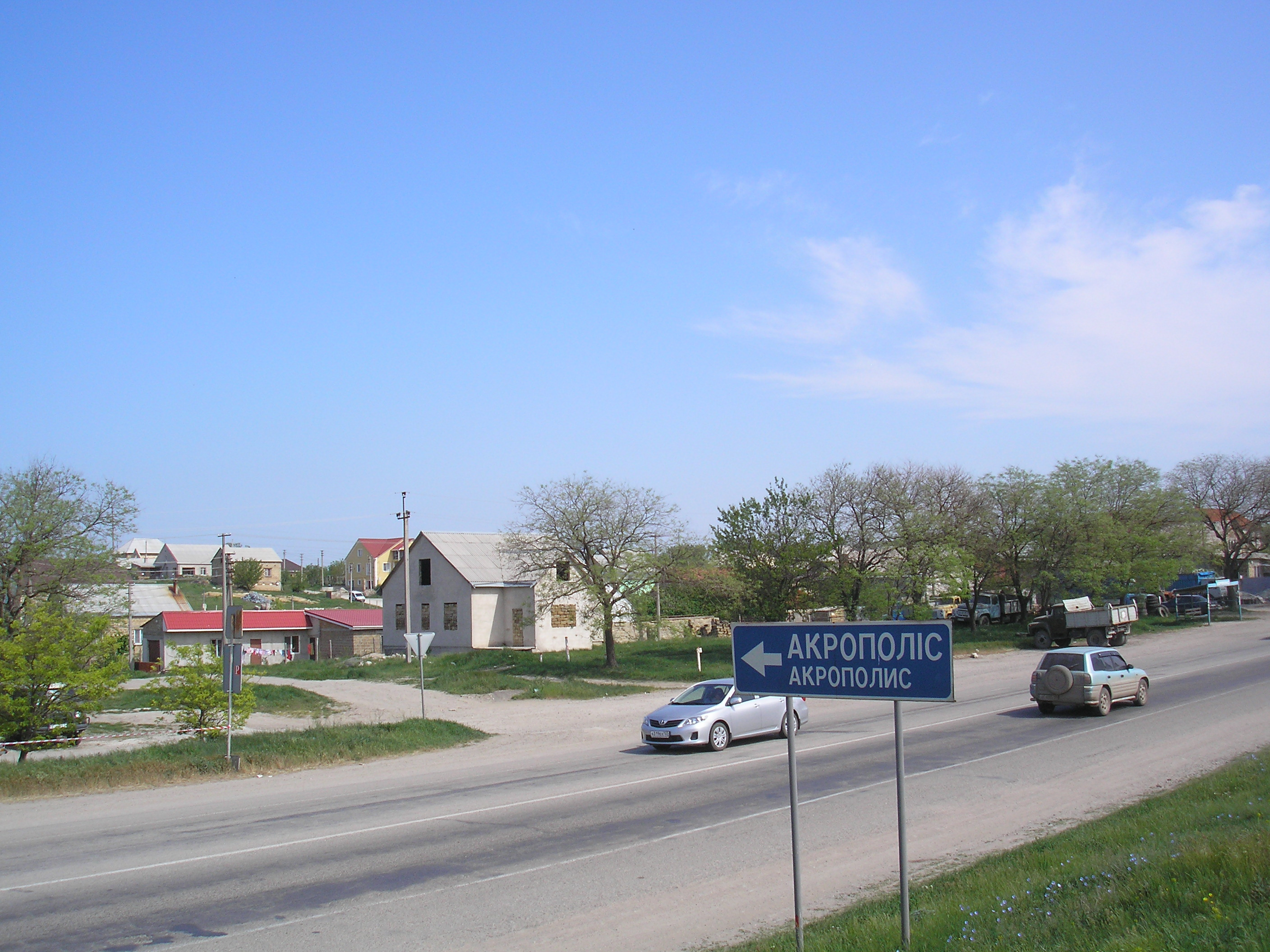 The village Acropolis, Simferopol district, Crimea